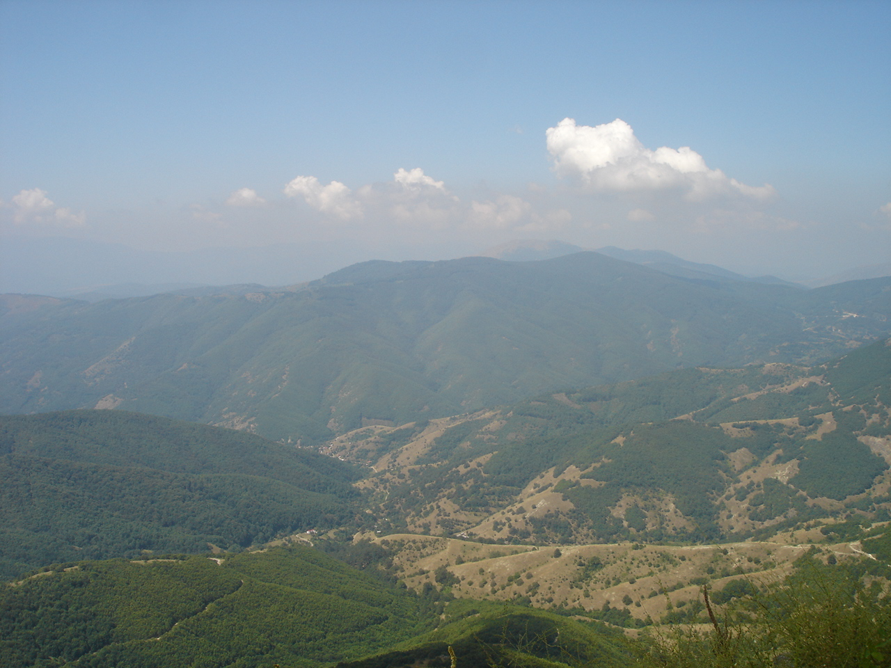 Busheva mountain, Macedonia